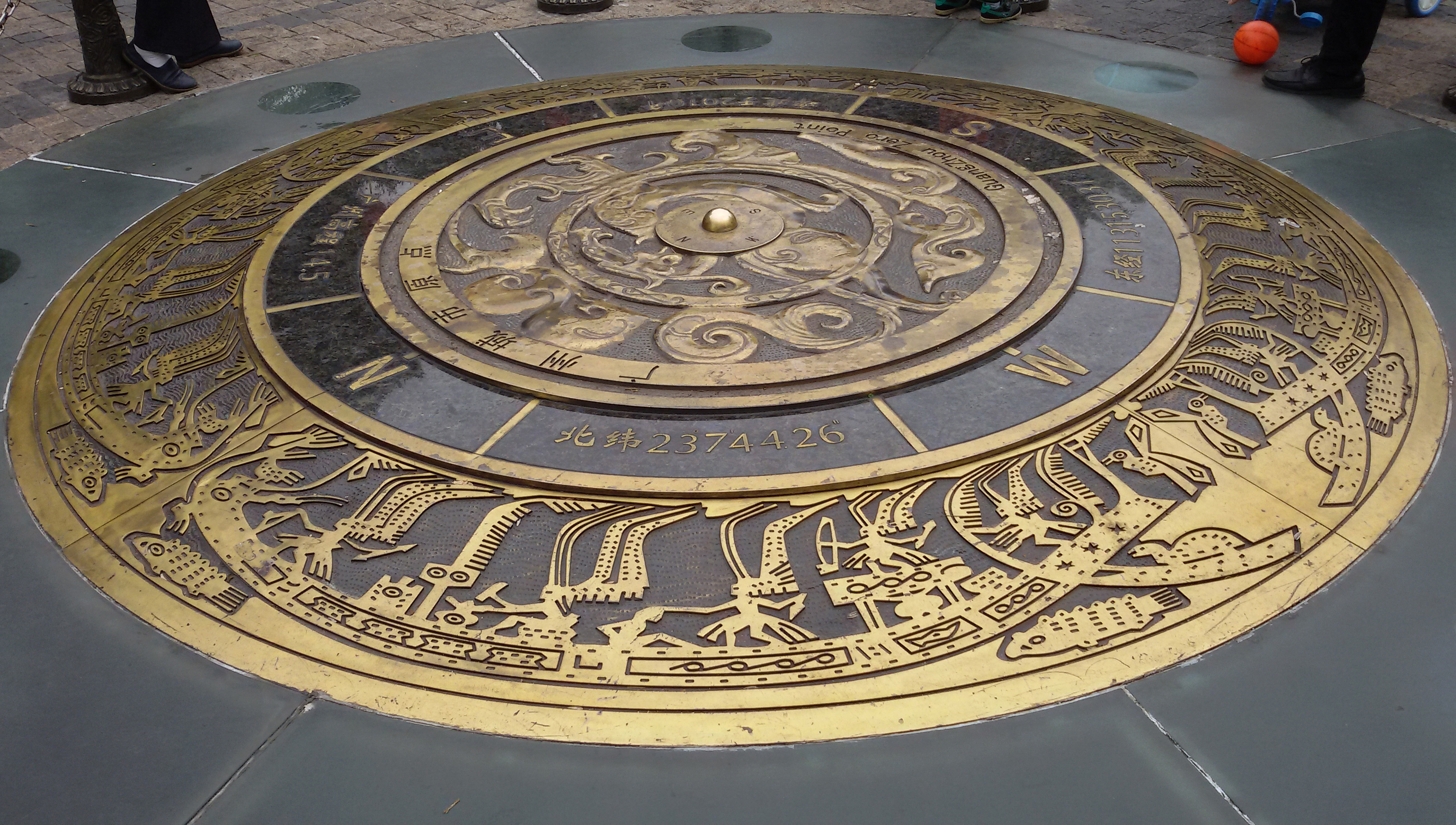 Point Zero of Guangzhou